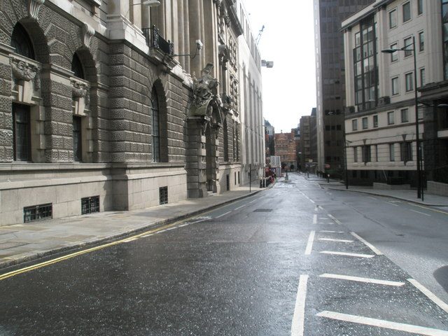 The street called Old Bailey in the City of London seen from grid reference TQ31818146 near its junction with Holborn Viaduct / Newgate Street. The building on the left is the Central Criminal Court (colloquially, the Old Bailey).